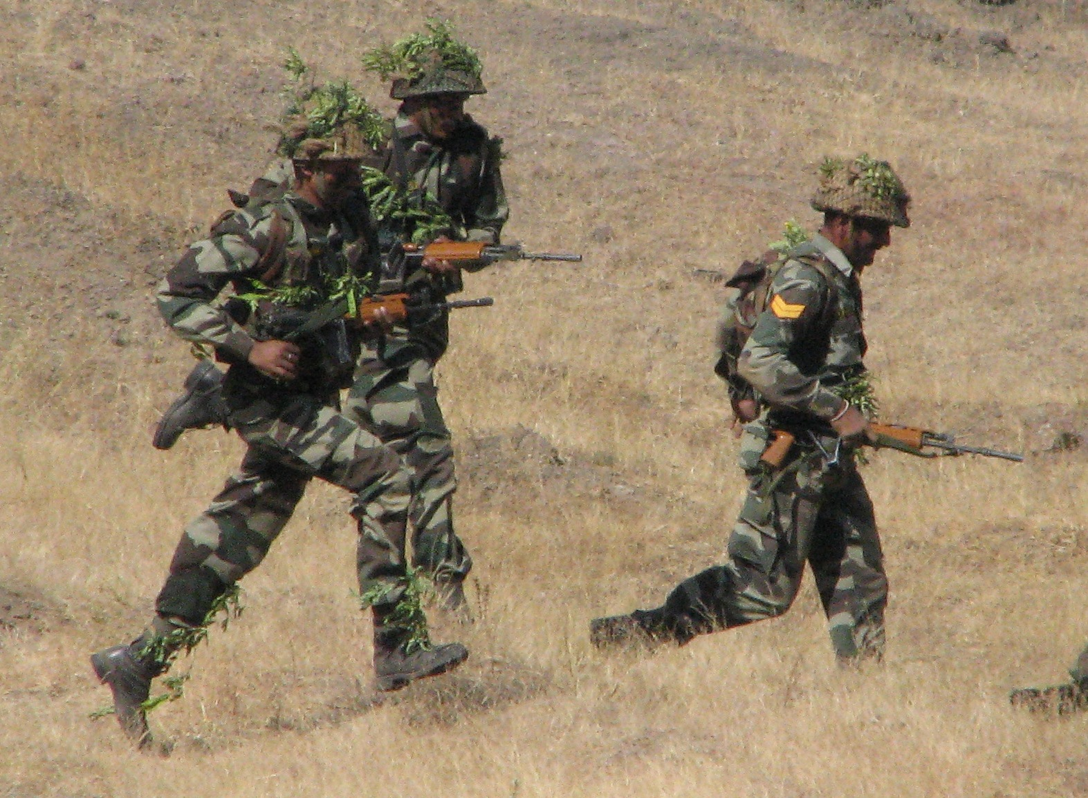 Indian Army men during exercise